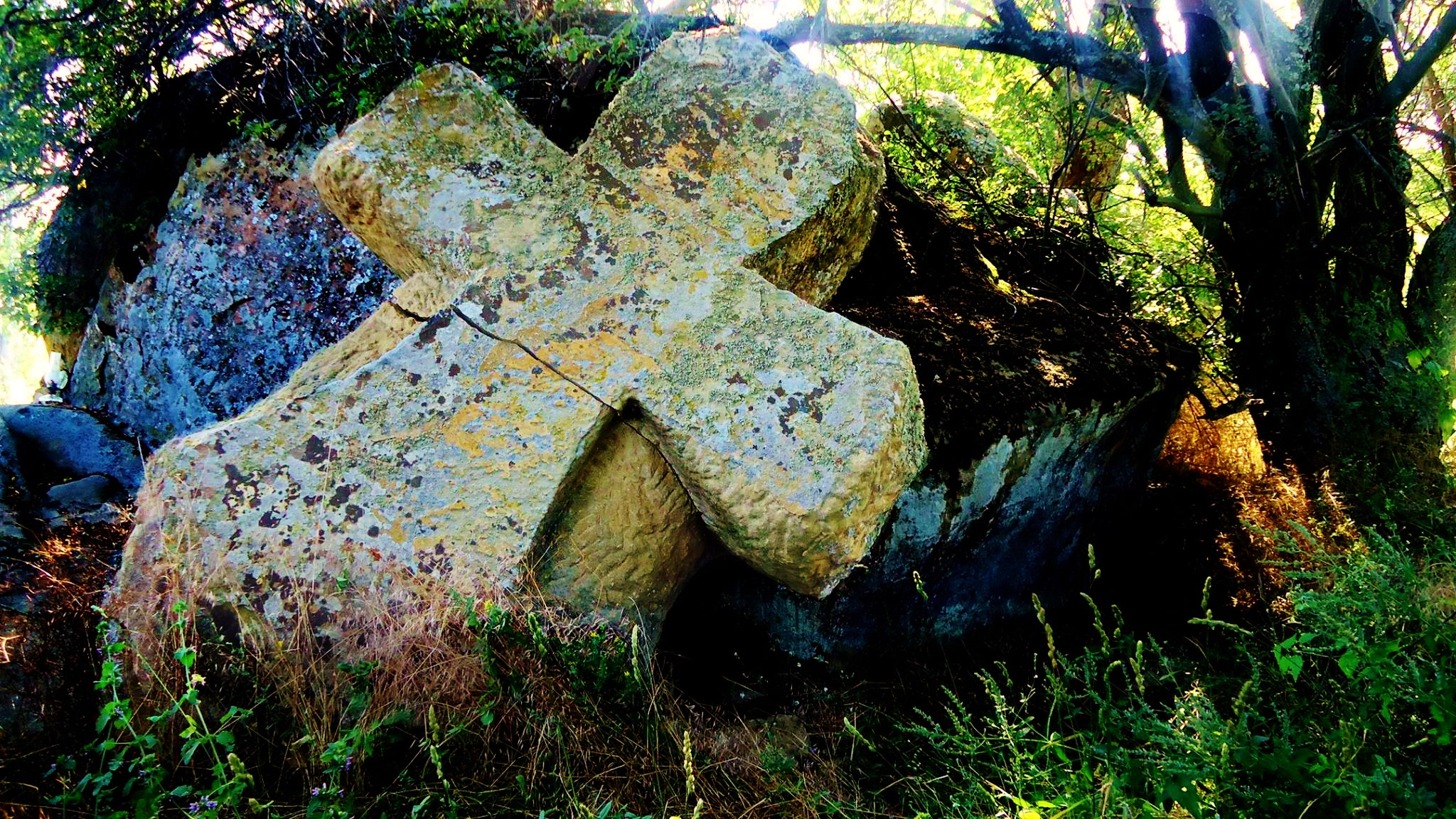 Stone Cross (Krastati kamen) Vetren Kuystendil Bulgaria